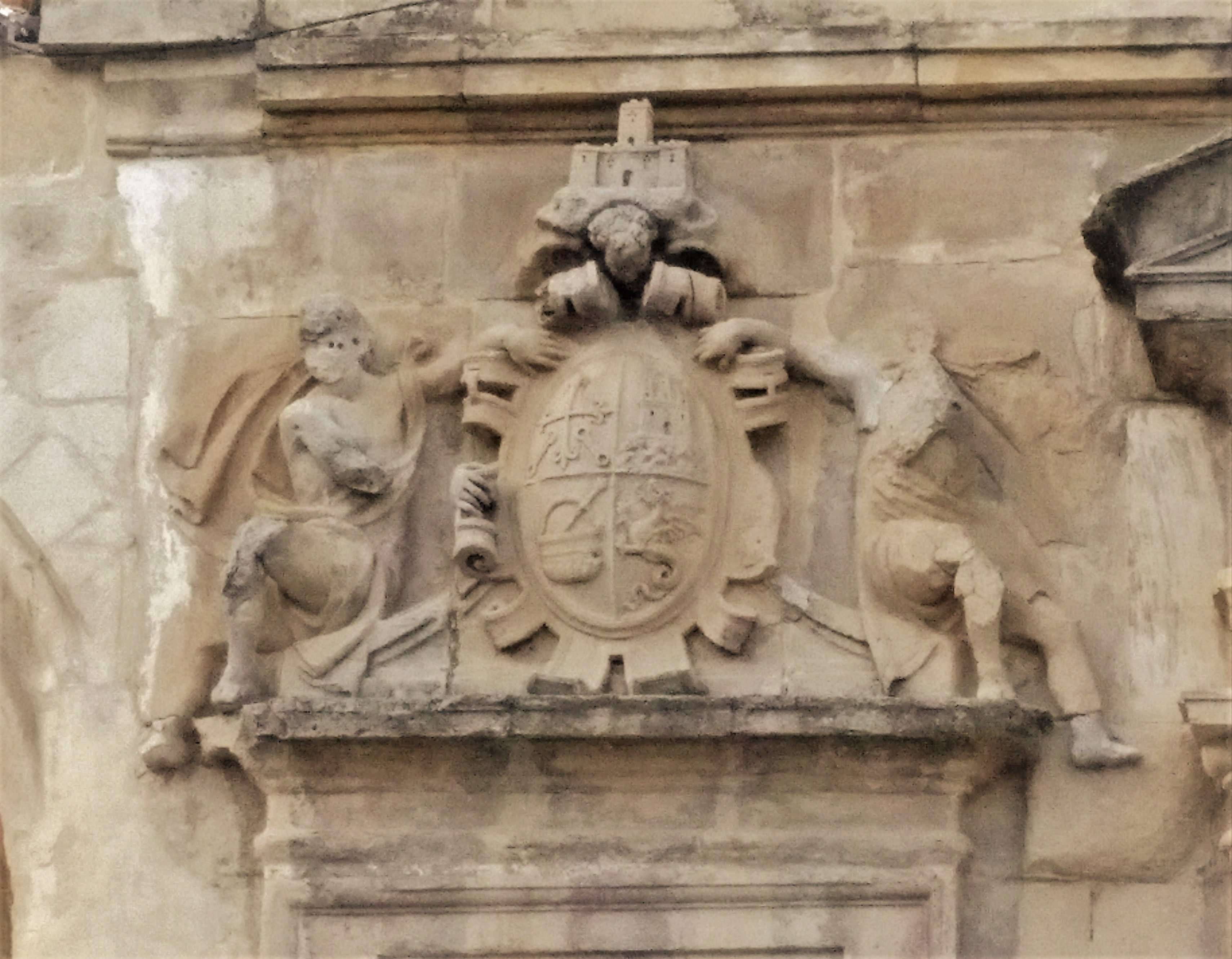 Martos Coat of Arms Representation sculpted on the the town hall facade.